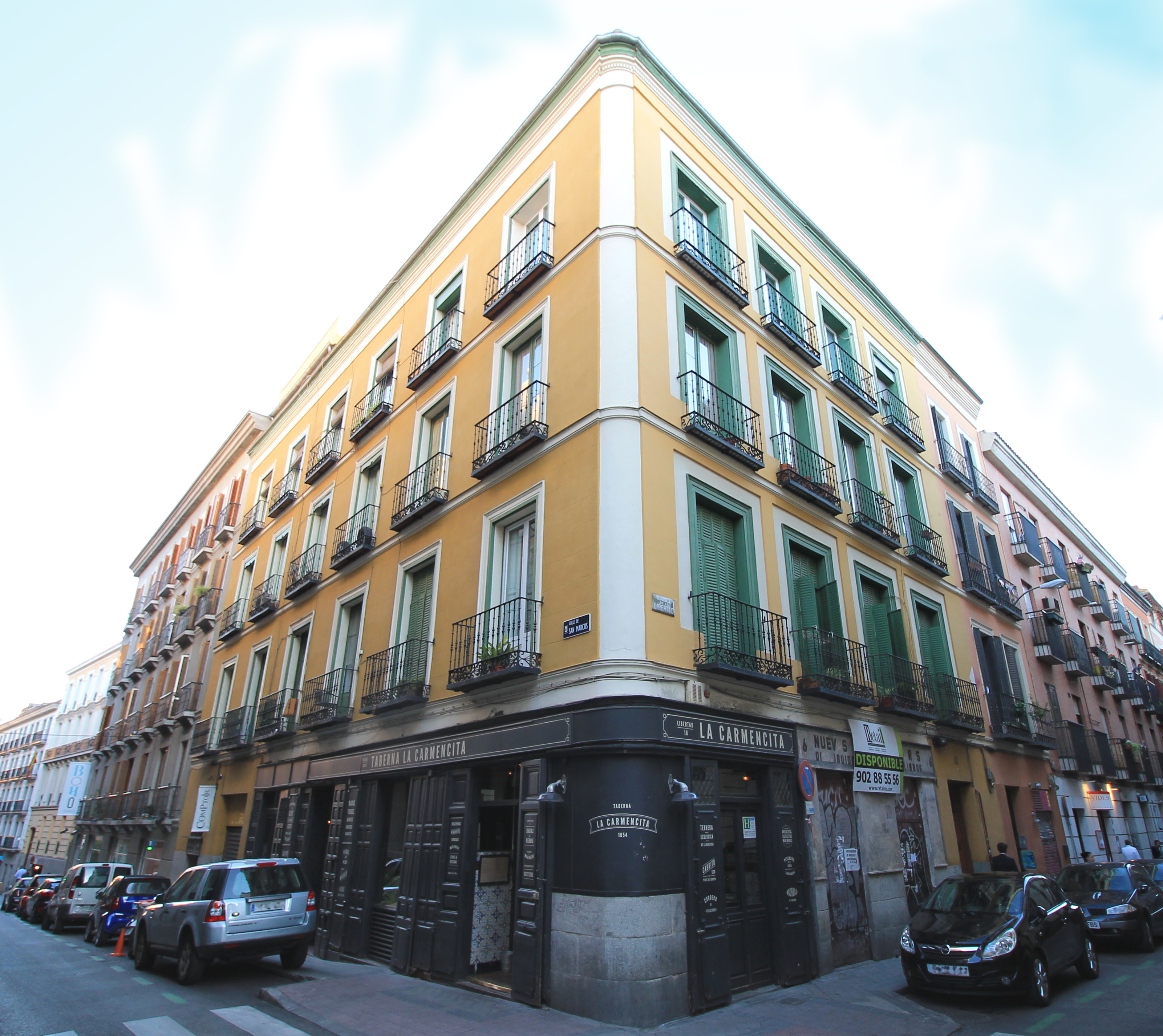 Housing building at 16 Calle de la Libertad (street) in Madrid (Spain).